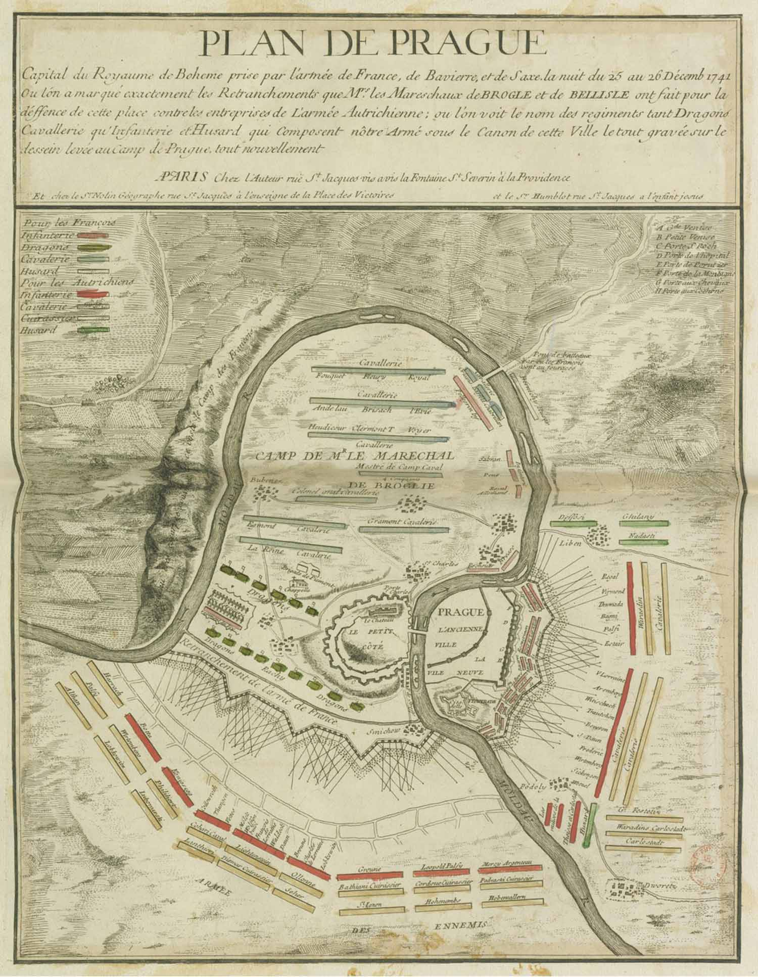 The Siege of Prgaue 1742